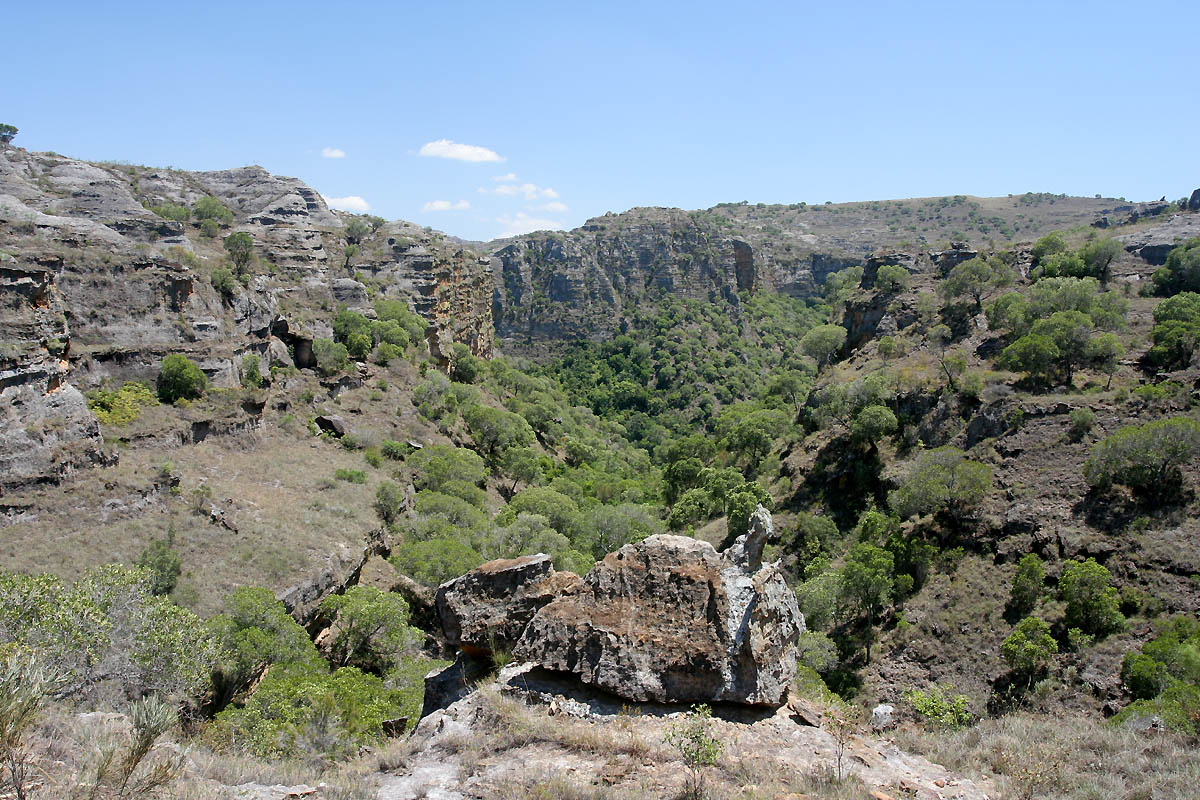 A canyon at the Isalo National Park (Parc National d'Isalo), Madagascar